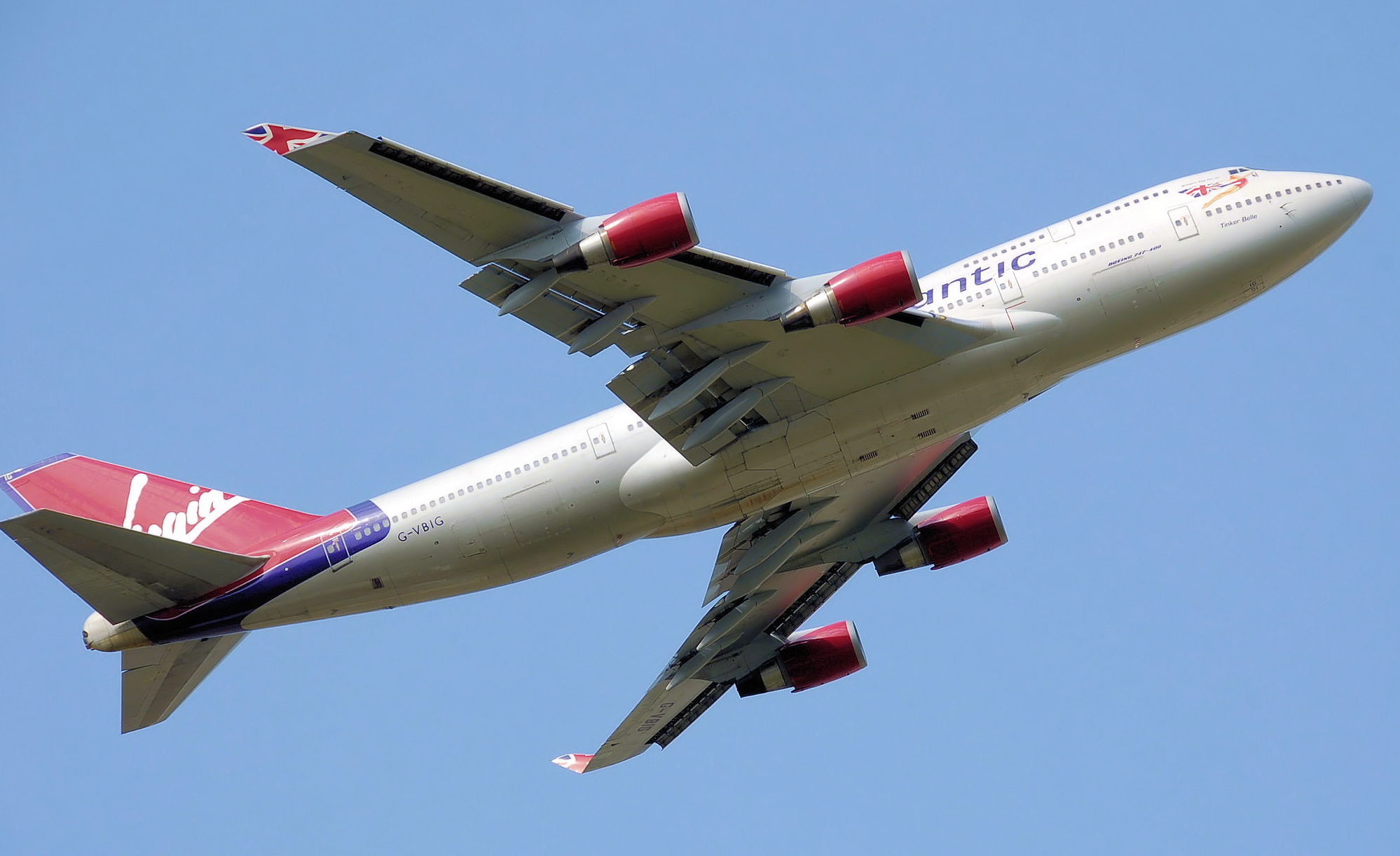 Virgin Atlantic Airways Boeing 747-400 (G-VBIG, "Tinker Belle") in planform view, climbing out of London Heathrow Airport.